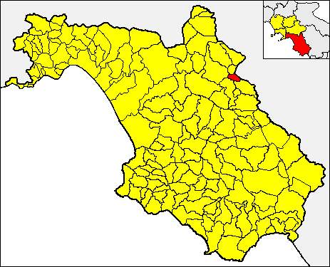 Locator map of the municipality of Salvitelle (red) within the Province of Salerno